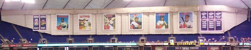 Metrodome curtain with titles and retired numbers Obviously, I didn't build the curtain. I claim "fredoom of panorma". Note: This is a composite of two photos. The name "curtain of fame" I just made up. I don't know what the Twins call it.